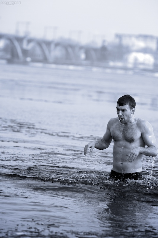 Alexey Ivancha, Novamoskovsk, endures the shock of a dip in the freezing Dnepr river in Dnipropetovsk on Epiphany. Participants in the ritual may dip themselves three times under the water, honoring the Holy Trinity, to symbolically wash away their sins from the past year, and to experience a sense of spiritual rebirth.